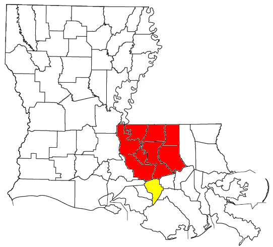 Locator map of the Baton Rouge-Pierre Part Combined Statistical Area in the central part of the U.S. state of Louisiana. The two components of the CSA are colored separately: Baton Rouge Metropolitan Statistical Area: red Pierre Part Micropolitan Statistical Area: yellow